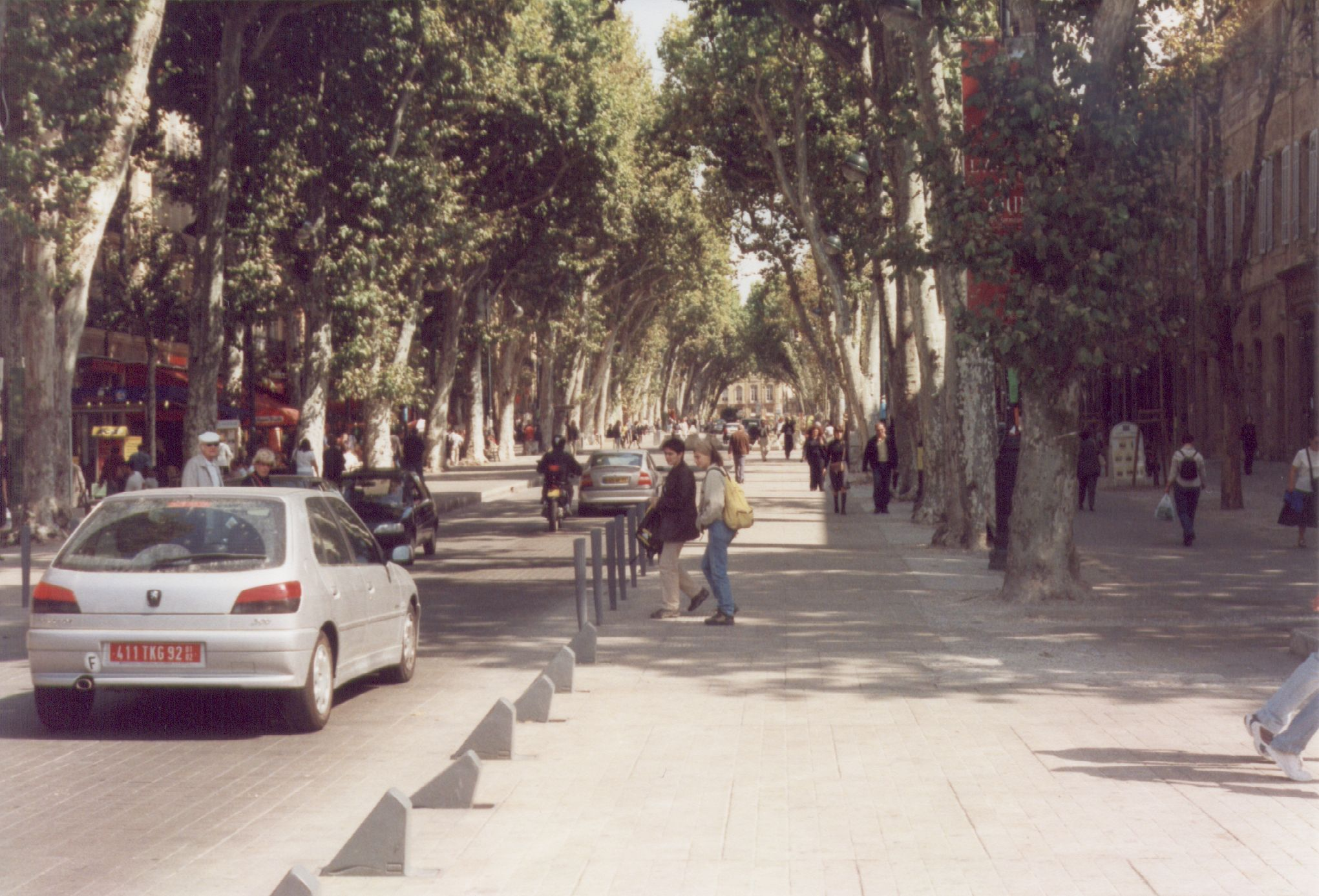 The boulevard Cours Mirabeau in Aix-en-Provence, France.